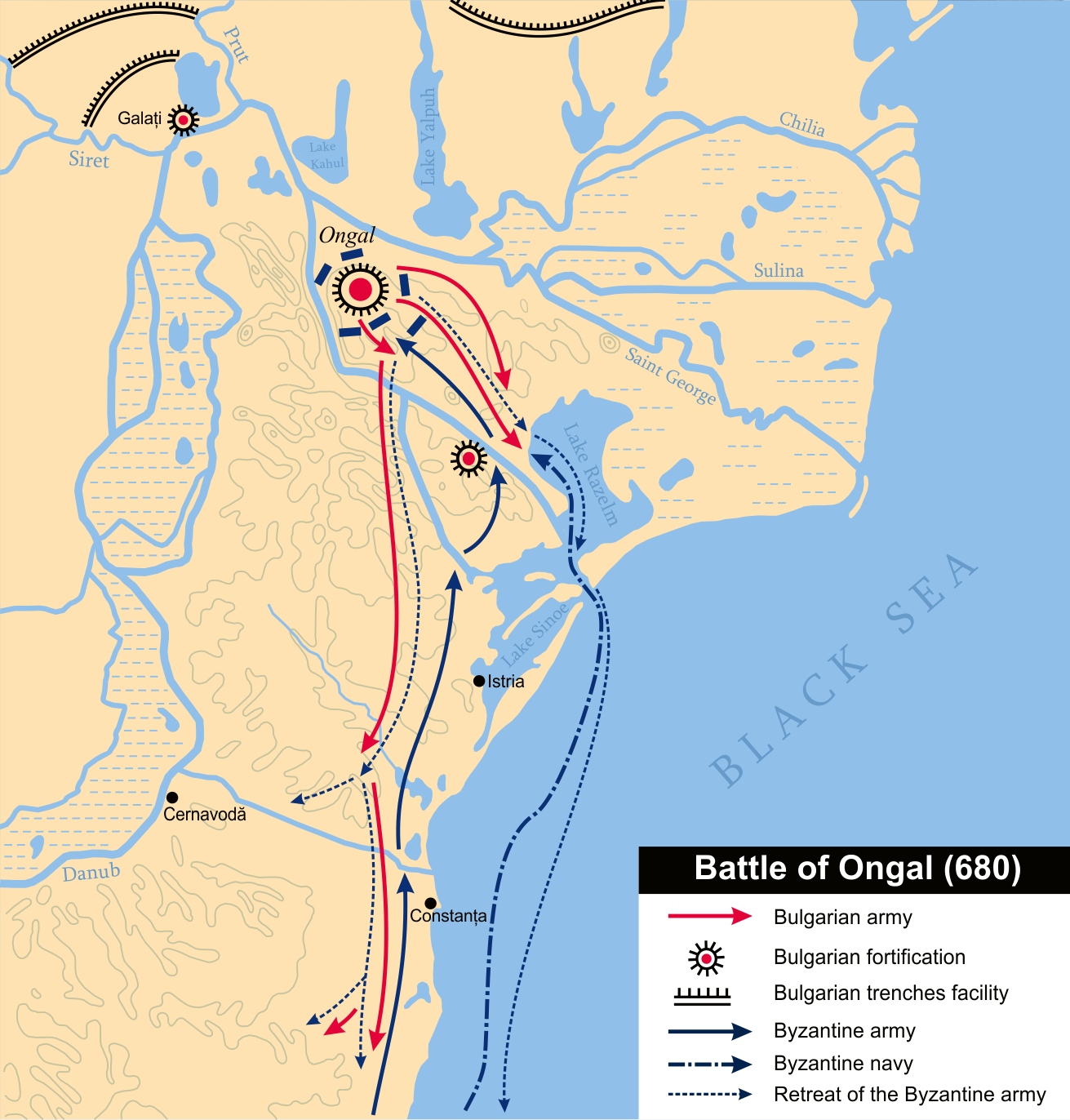 Battle of Ongal-plan Основана на карта "Походът на император Константин Погонат срещу прабългарите през 680 г. и битката при Онгъла", стр. 7 във "Великите битки и борбите на българите през средновековието", издателство "Световна библиотека" ЕООД, София, 2006 г.